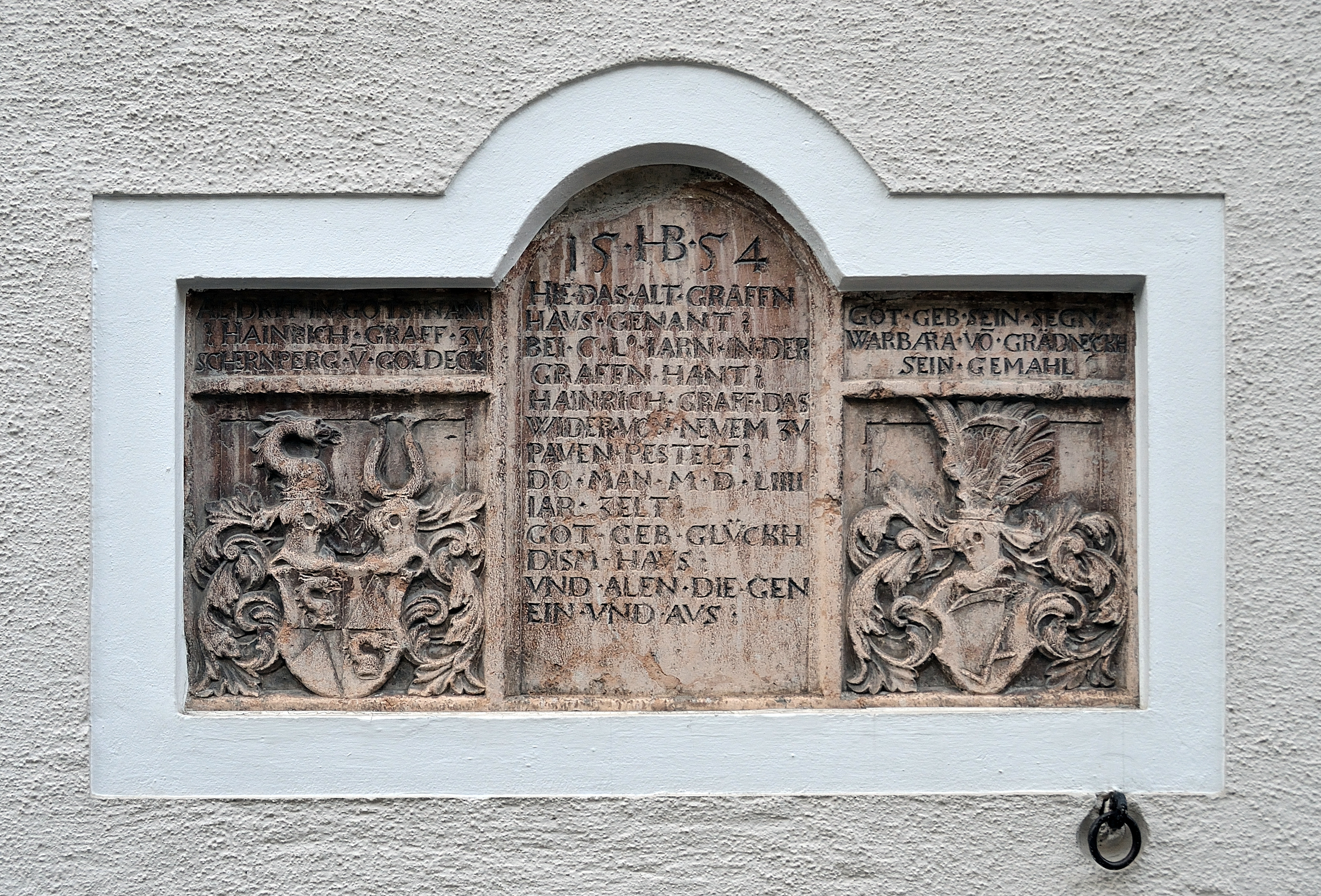 Coats of arms and inscription originating from 1554 at Schernbergstraße 5, Radstadt